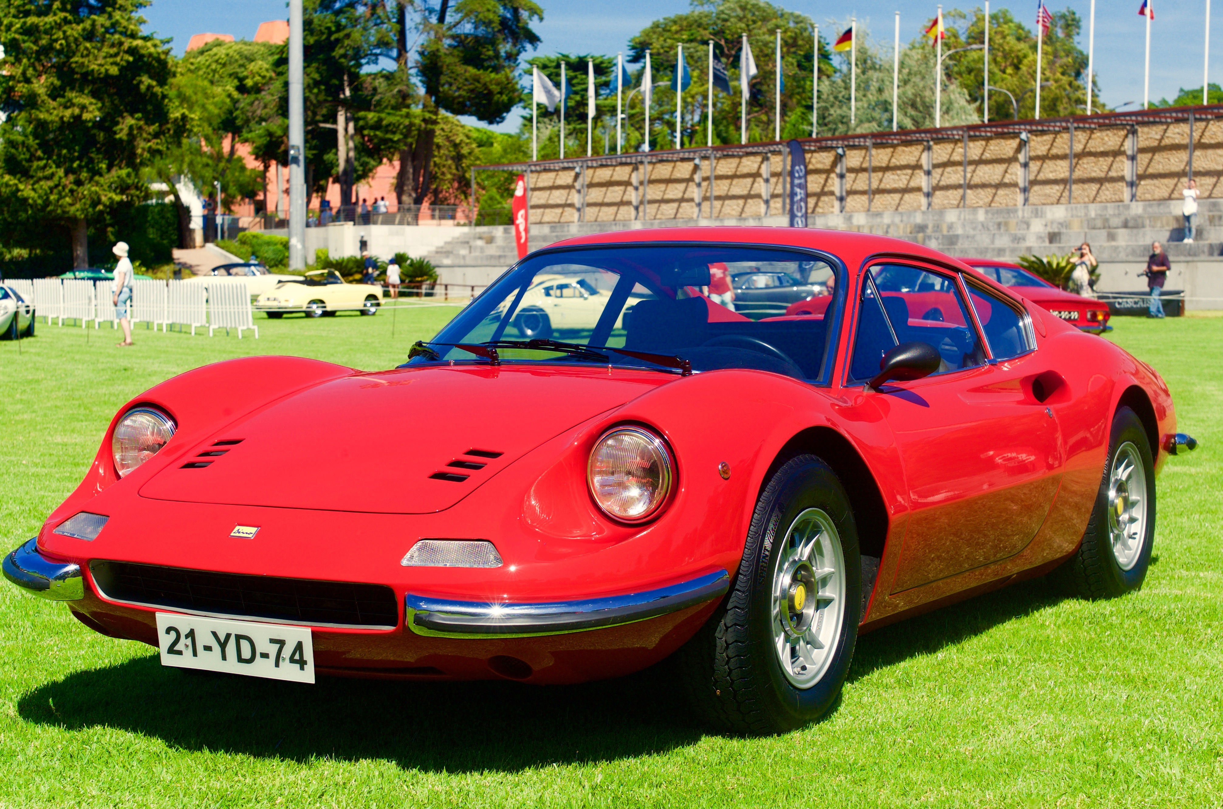 Cascais Classic Motorshow, Cascais, Portugal